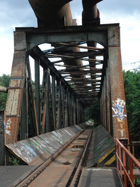 View from northside of Hansa-Gate, Dortmund-Huckarde